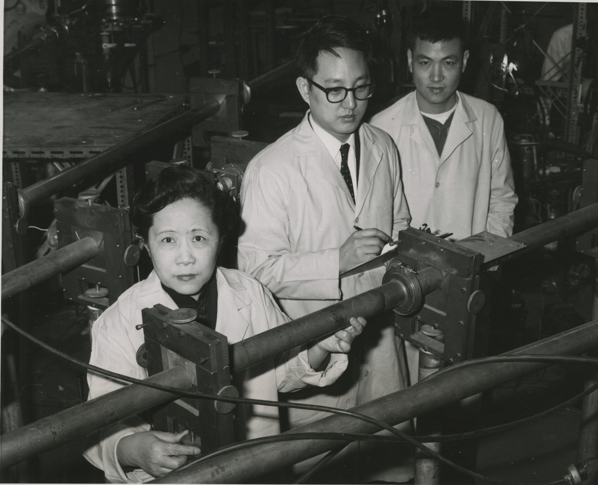 Creator: Beutler, Margarete 1876-1949 Subject: Wu, C. S (Chien-shiung) 1912-1997 Lee, Y. K Mo, L. W Columbia University Type: Black-and-white photographs Date: 1963 3/20/1963 Topic: Physics Van de Graaff generator Women scientists Local number: SIA Acc. 90-105 [SIA2010-1508] Summary: The experiments of Columbia University physicists (left to right) Chien-shiung Wu (1912-1997), Y.K. Lee, and L.W. Mo confirmed the theory of conservation of vector current. In the experiments, which took several months to complete, proton beams from Columbia's Van de Graaff accelerator were transmitted through pipes to strike a 2 mm. Boron target at the entrance to a spectrometer chamber Cite as: Acc. 90-105 - Science Service, Records, 1920s-1970s, Smithsonian Institution Archivess Persistent URL:Link to data base record Repository:Smithsonian Institution Archives View more collections from the Smithsonian Institution.